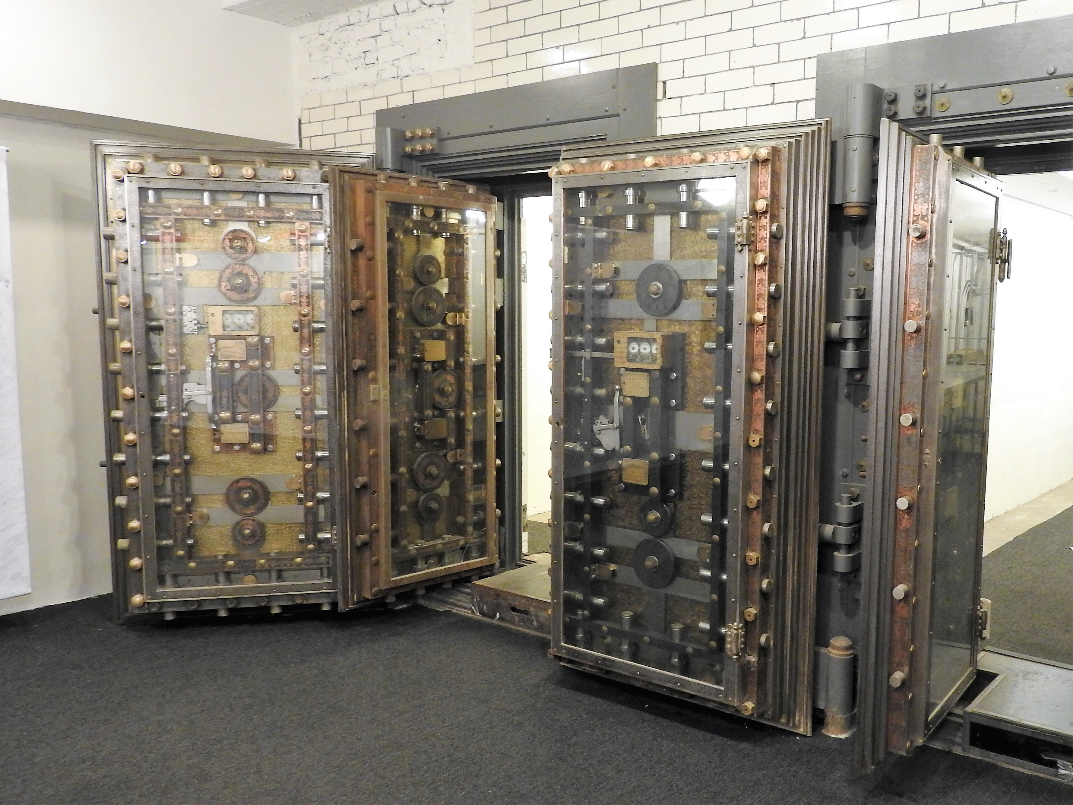 Looking east at vault